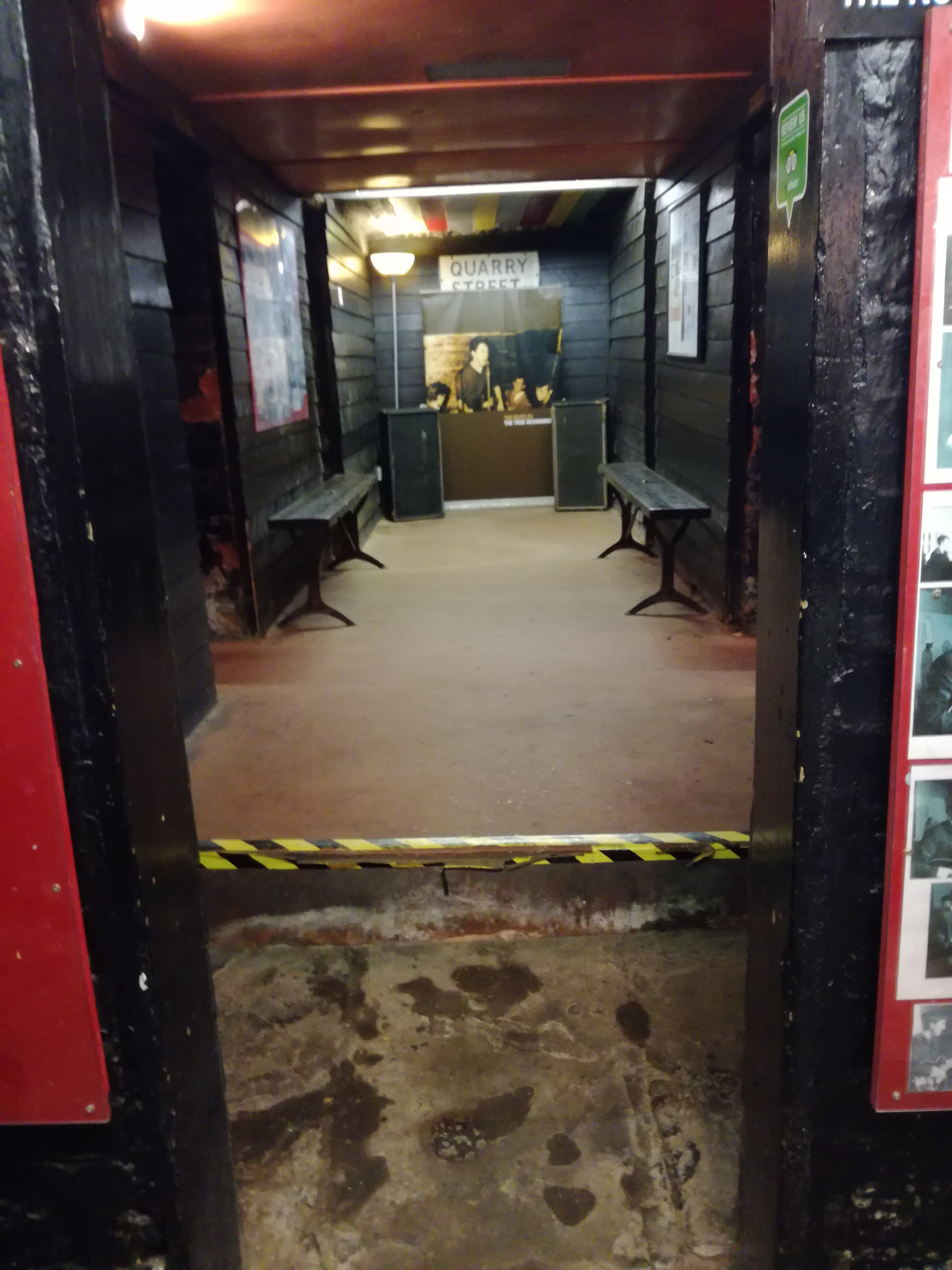 Casbah 1959 stage.